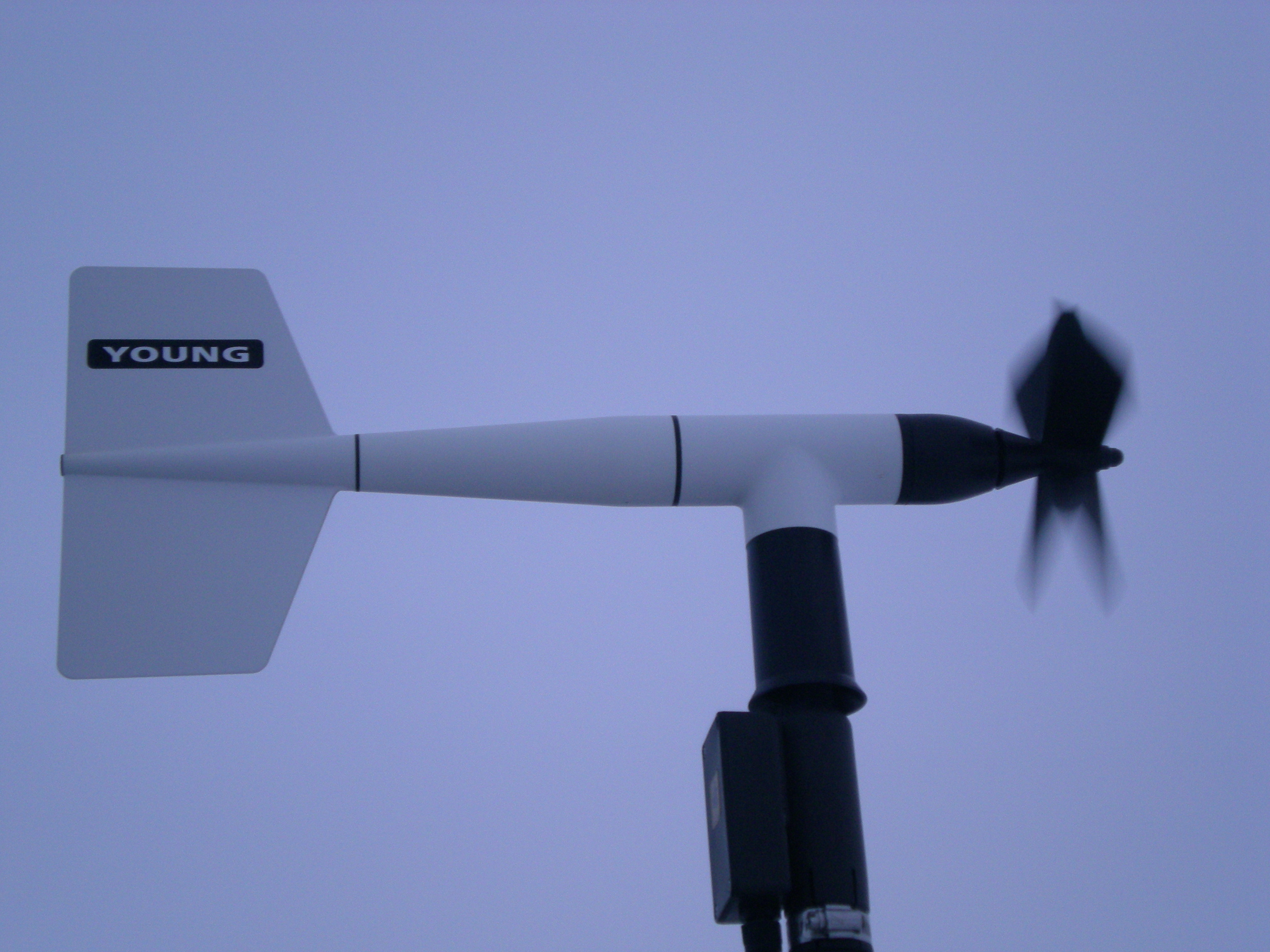 An anemometer from the Young company, also known as an aerovane.